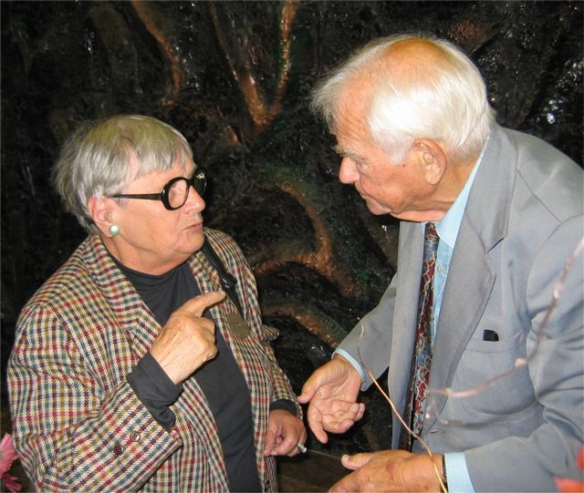 Ryszard Matuszewski (b. August 18, 1914 in Warsaw, Poland, d. April 29, 2010 in Warsaw, Poland) - Polish literary critic, writer, essayist and publicist and Maria Iwaszkiewicz-Wojdowska (b. 1924), the daughter of the Polish writer Jarosław Iwaskiewicz (1894-1980)